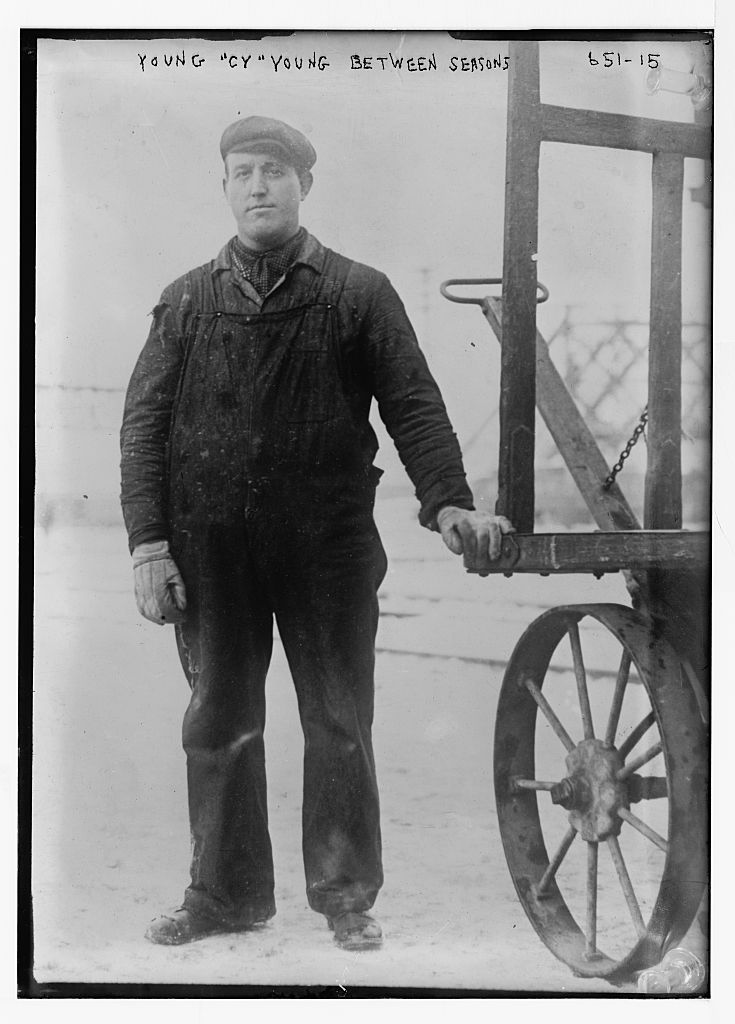 Photo shows baseball pitcher Irving Melrose who was known as "Young Cy" and "Cy the second."